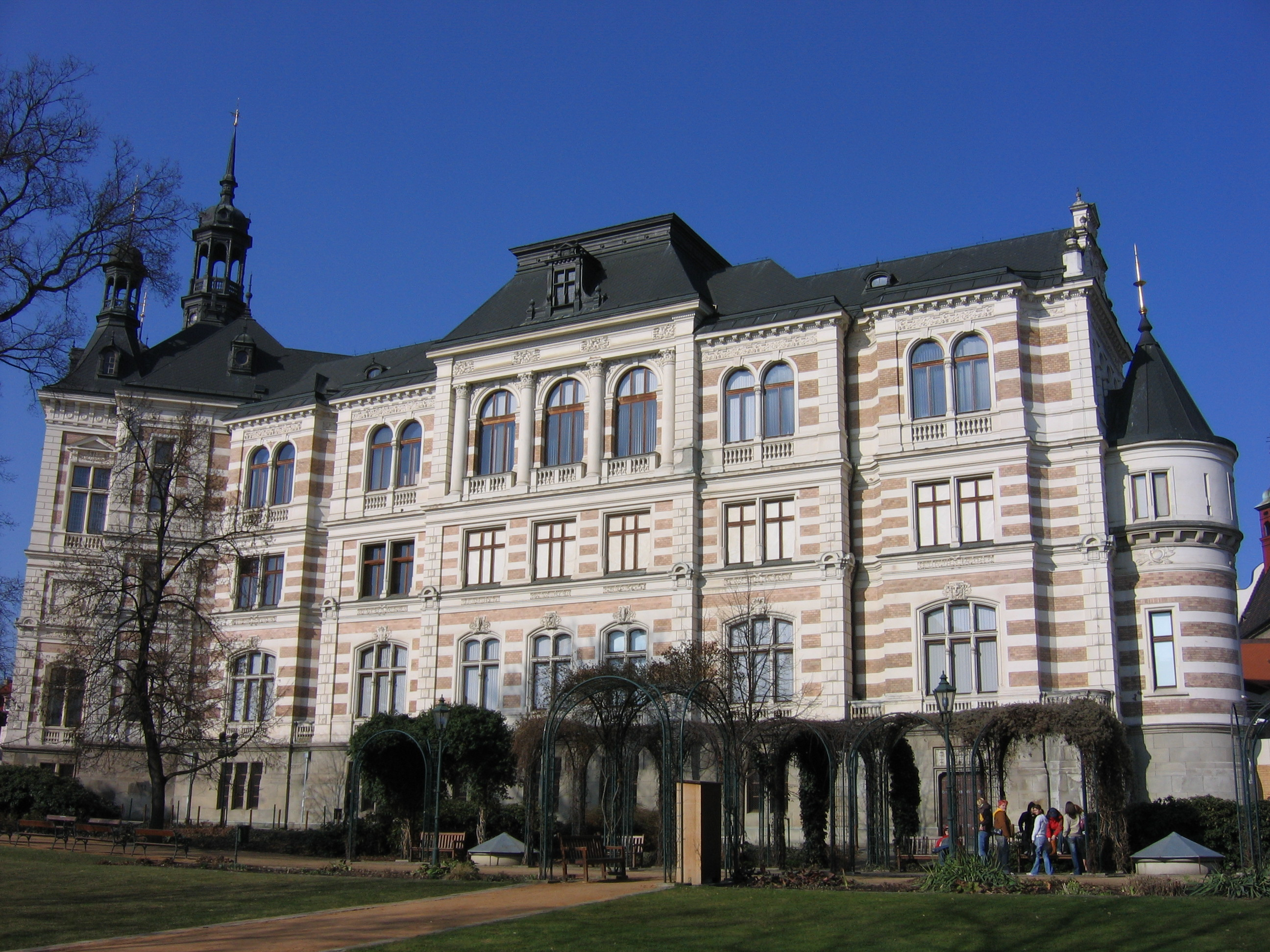 City of Plzeň, Czech Republic. Pilsen, Tschechien.